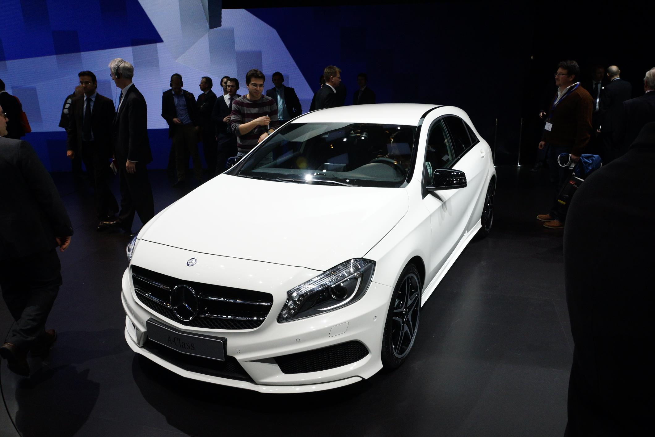 There was plenty of high-end metal being unveiled at the Geneva Motor Show, but the likes of the one-off Lamborghini Aventador J, the Ferrari F12 Berlinetta, and the Maserati GranTurismo Sport, and others weren’t the real show stoppers... there were plenty of the big-end players downsizing: Mercedes-Benz A-Class, Audi A3, Volvo V40, and much more. Here’s what flicked our switch. You can check out more on the 2012 Geneva Motor Show here at; as well as